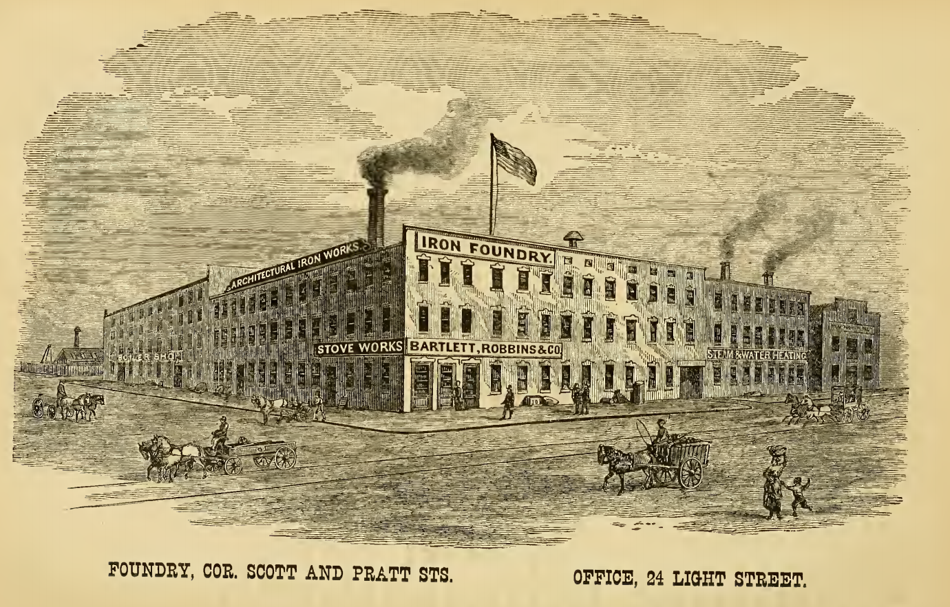 Bartlett, Robbins & Co - Scott and Pratt Sts - Circa 1873